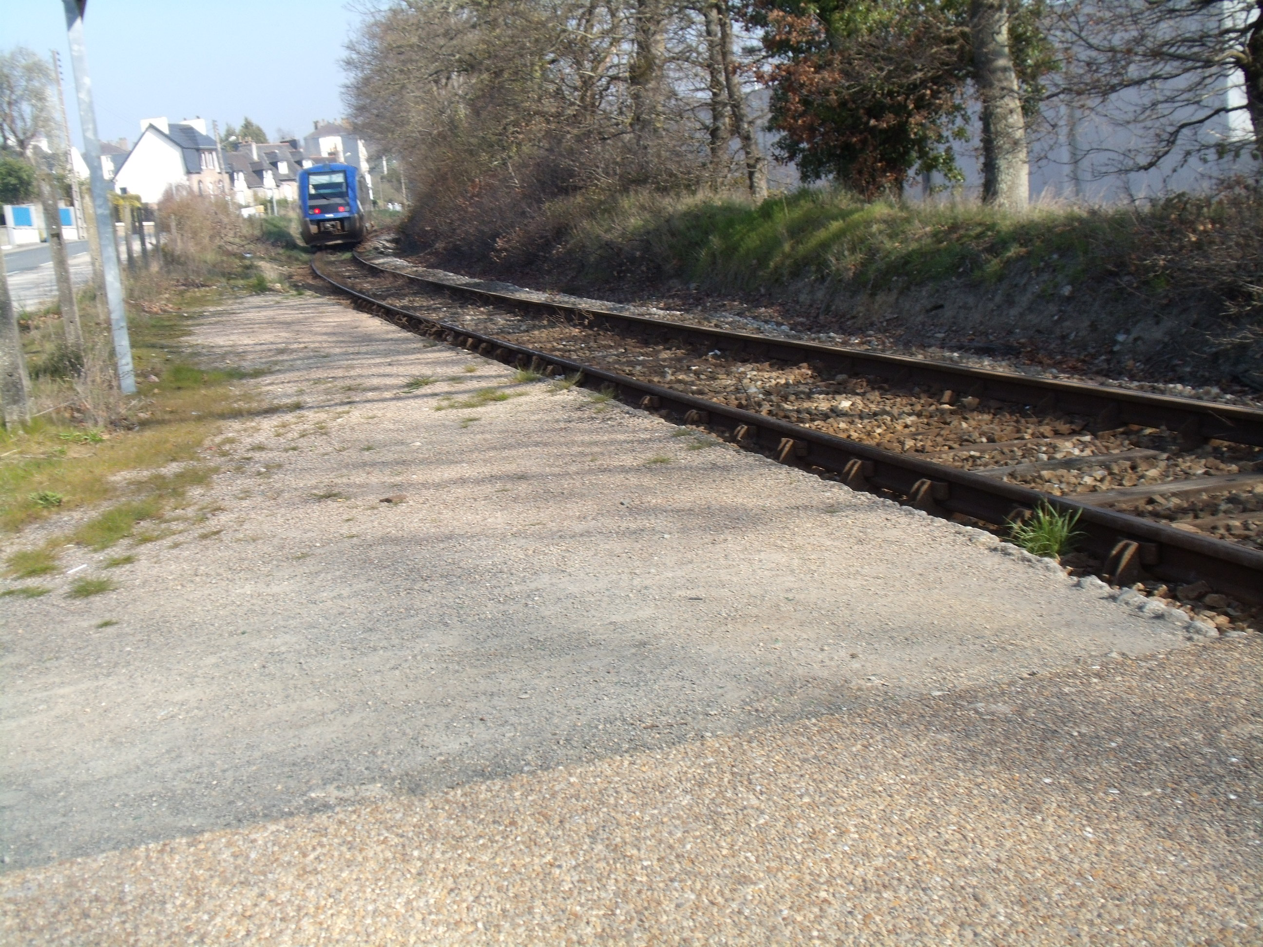 Gourland station with a TER from Guingamp to Paimpol